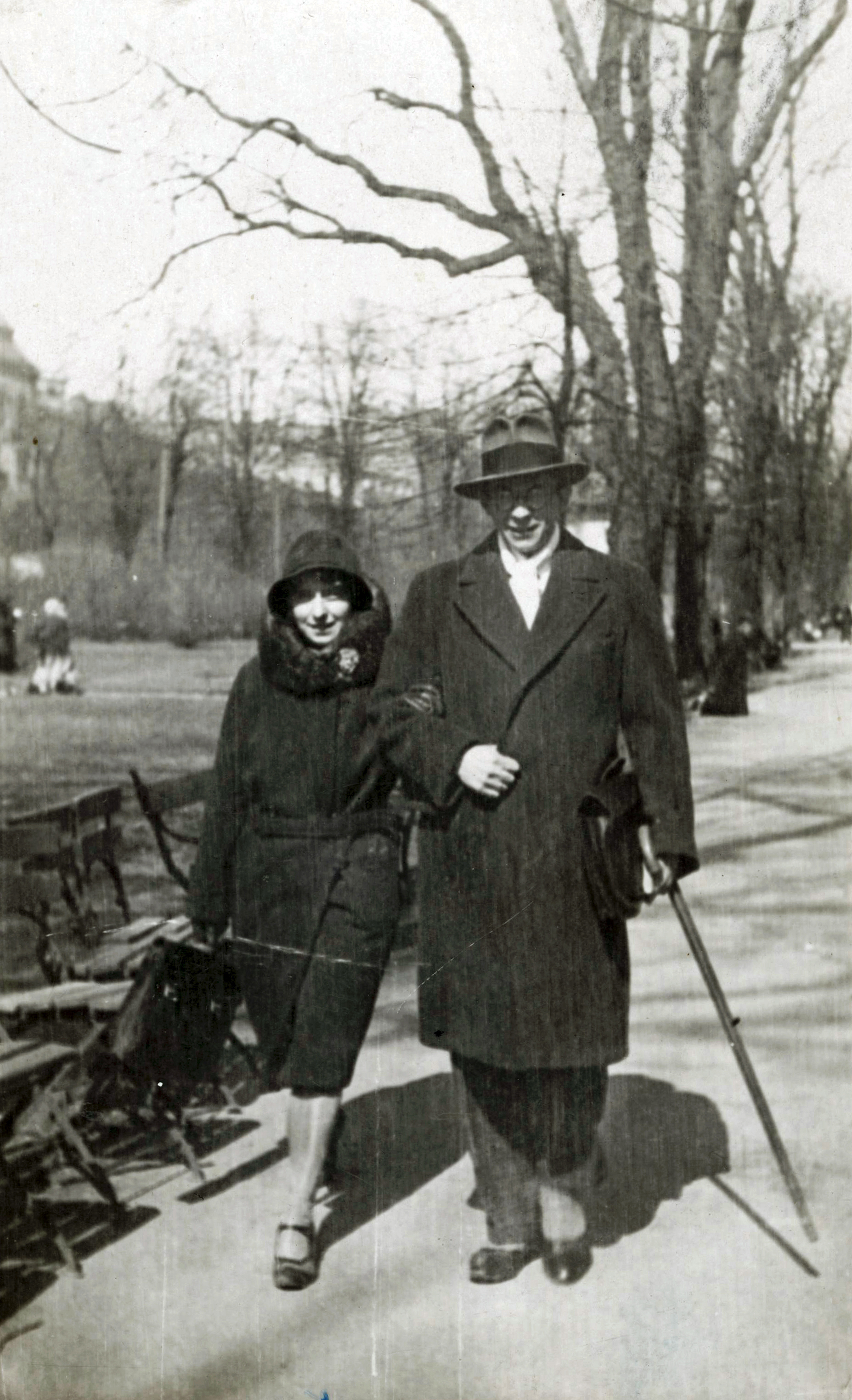 Irena Latinik-Vetulani (1904-1975), biologist – on the left, and Adam Vetulani (1901-1976), historian of medieval and canon law, during a walk.